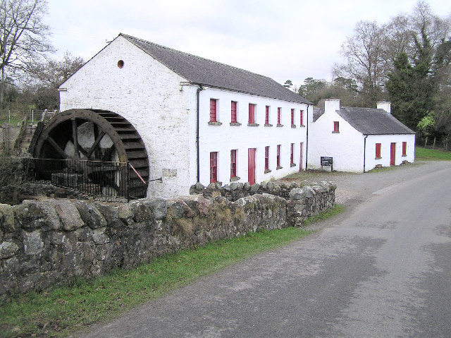 Wellbrook Beetling Mill. Linen manufacture was of major importance in 18th century Ireland and beetling was the final stage in the production process. This water-powered hammer mill has its original machinery still in working order. The mill takes its power from the fast flowing Ballinderry River. A short distance from the road you can see the mill race and the flume - the wooden trough carried on piers of Coal island brick - which takes the water for 15 metres to hit and drive the water wheel on the gable of the building. The wheel is 5 metres wide and 1.4 metres deep, made mainly of wood. with an iron shaft and surround which bears the name of the Armagh Foundry. The lever to open the sluice gate to start and stop the wheel is inside the mill itself - more at